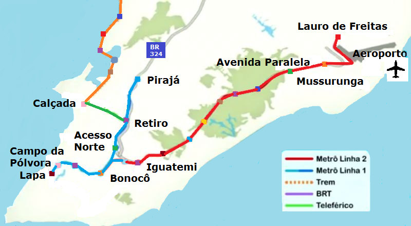 Salvador, Bahia Metro